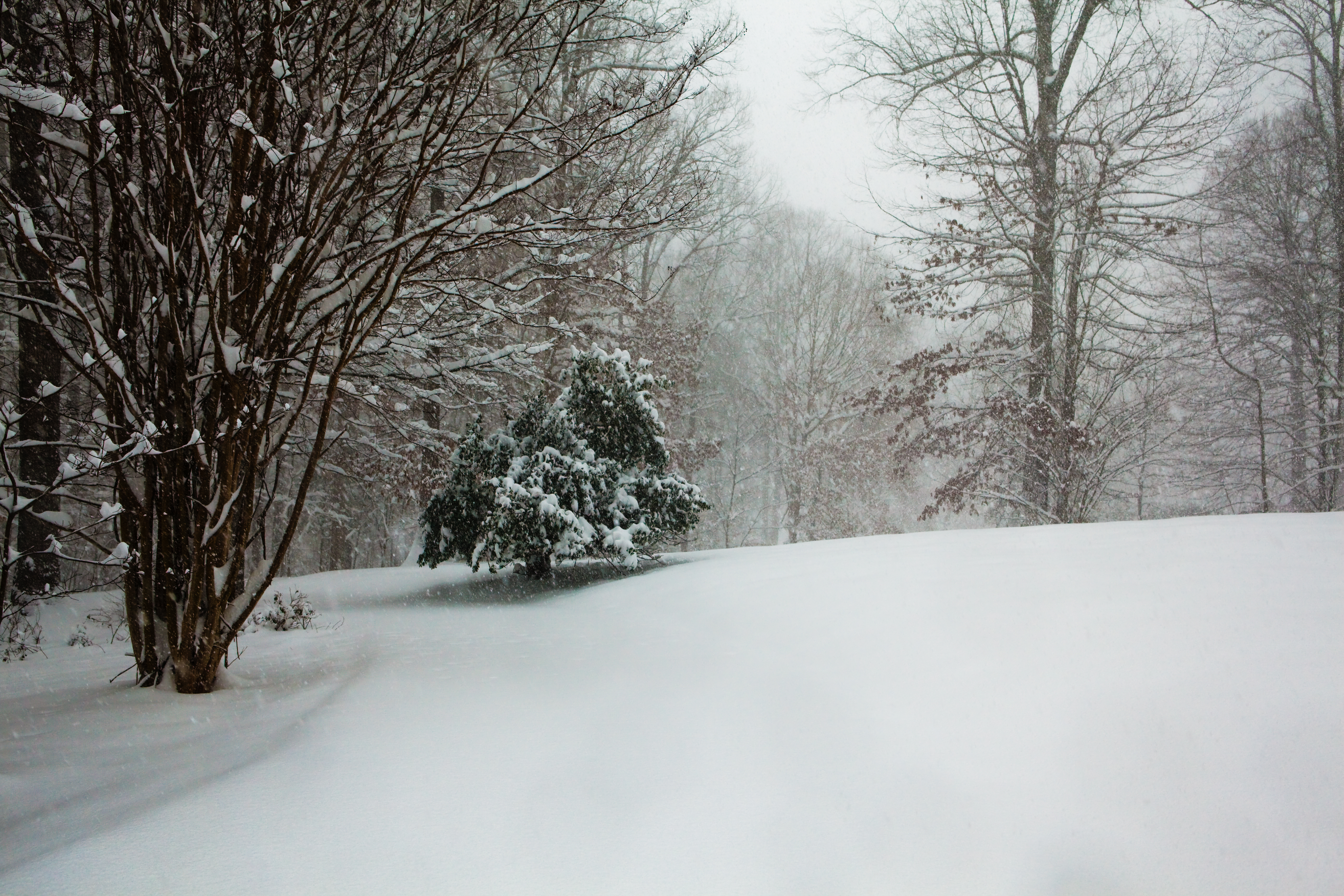 A field of snow completely covering a road during the North American blizzard of 2009 in Clifton, Virginia